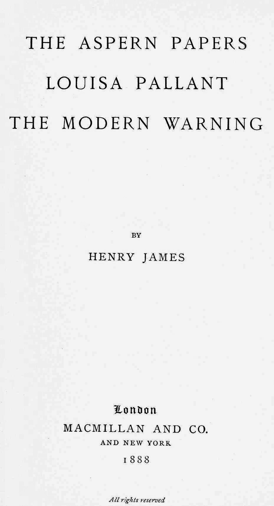 The Aspern Papers 1st ed title page